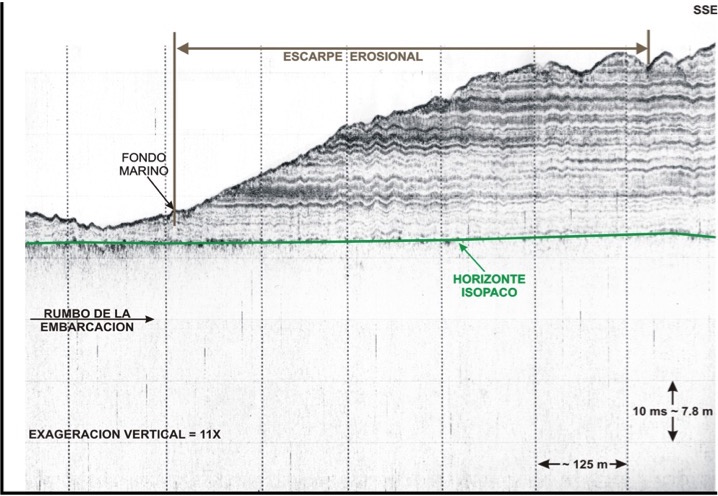 Sub bottom Profiler Data, Pinger 3.5 KHz type. Showing eroded shallow strata, with abrupt erosional slopes and scarps. Deltana Platform offshore.